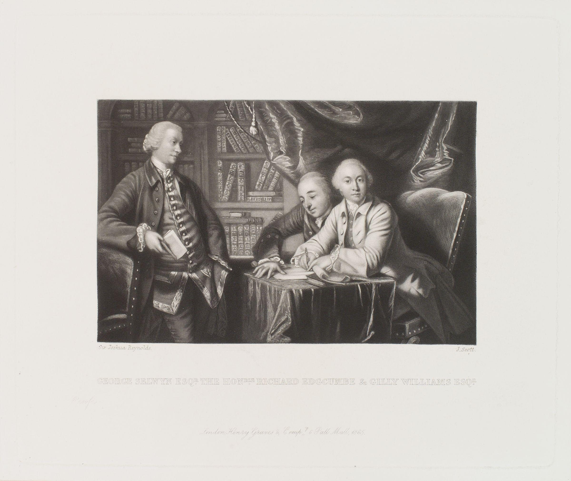 George Augustus Selwyn; Richard Edgcumbe, 2nd Baron Edgcumbe; George James Williams, by Henry Graves (died 1892), published 1865. Depicts George Augustus Selwyn (standing), Richard Edgcumbe writing on a desk and looking towards the viewer, with George James Williams looking over his shoulder. All images in this batch have been confirmed as author died before 1939 according to the official death date listed by the NPG.